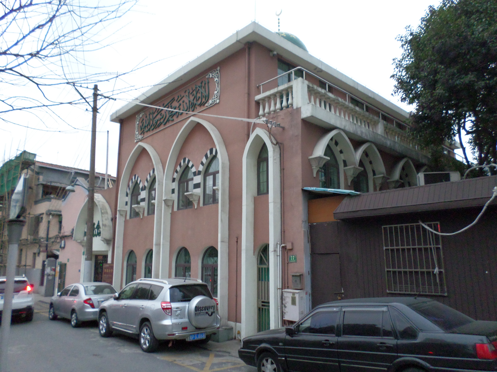 Xiaotaoyuan Mosque, Huangpu District, Shanghai, China